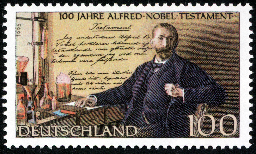 Stamp from Deutsche Post AG from 1995, 100th anniversary of Nobel testament